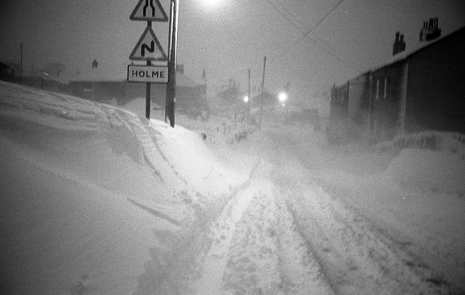 Black & White Image of Snow covered A6024 Woodhead Road, into Holme Village, from Holme Moss in the Dark Peak area of The Peak District National Park, During the Winter of 1978. Photo taken by me.